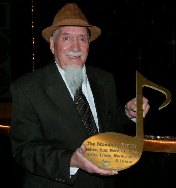 Lewie Steinberg accepting Brass Note on Beale Street's Walk of Fame